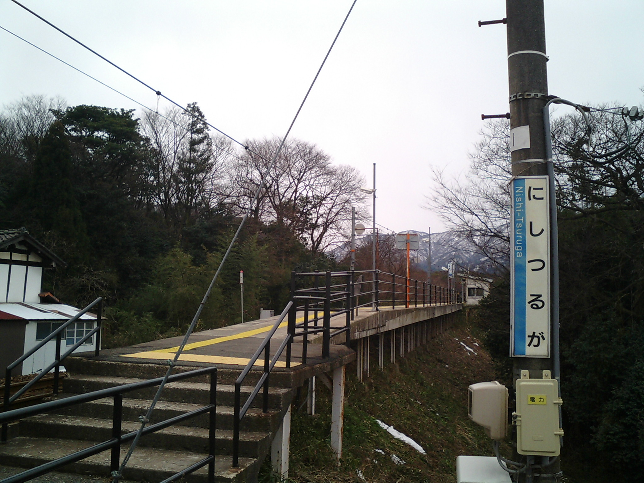 Nishi Tsurgua Station